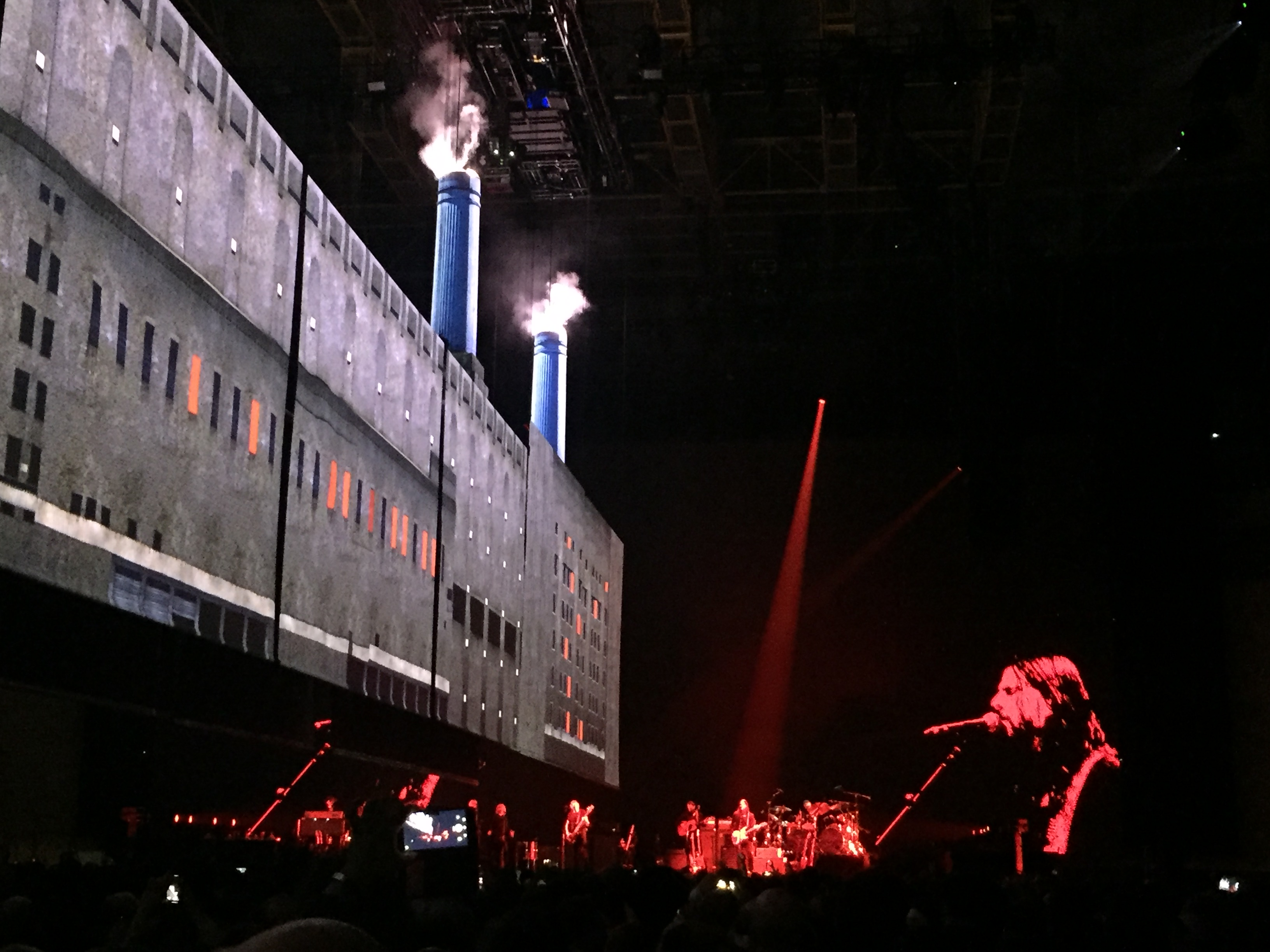 Concert of Roger Waters in Palau Sant Jordi, Barcelona; first show of the second leg in Us+Them tour. (13th of April 2018)